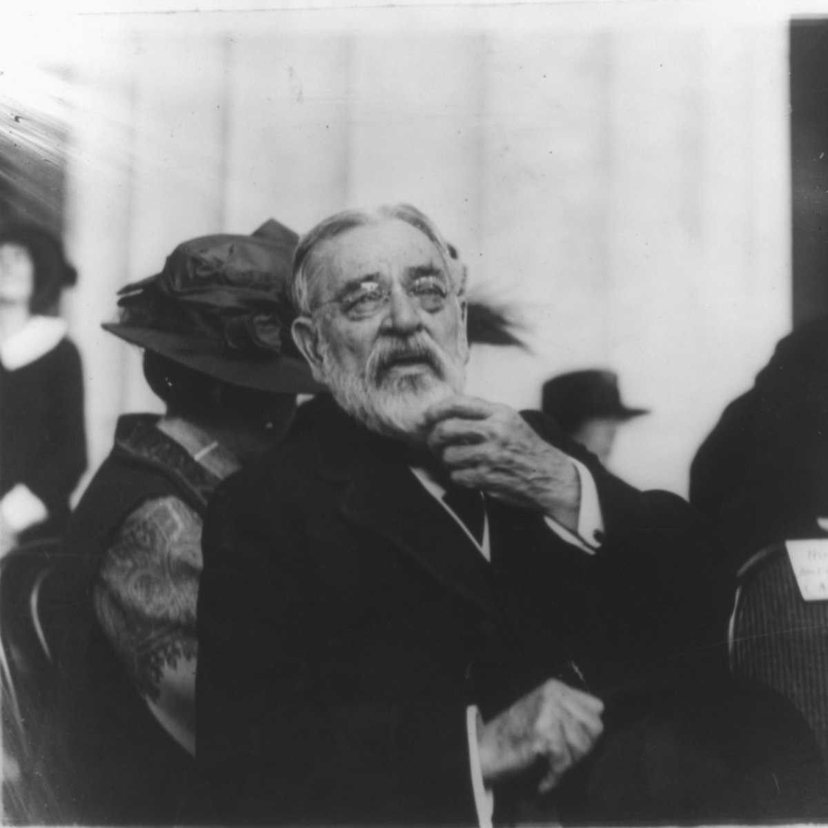 Robert Todd Lincoln, 1843-1926. Half-length portrait in old age. Son of Abraham Lincoln, while attending the dedication exercises at the Lincoln Memorial, May 30, 1922.